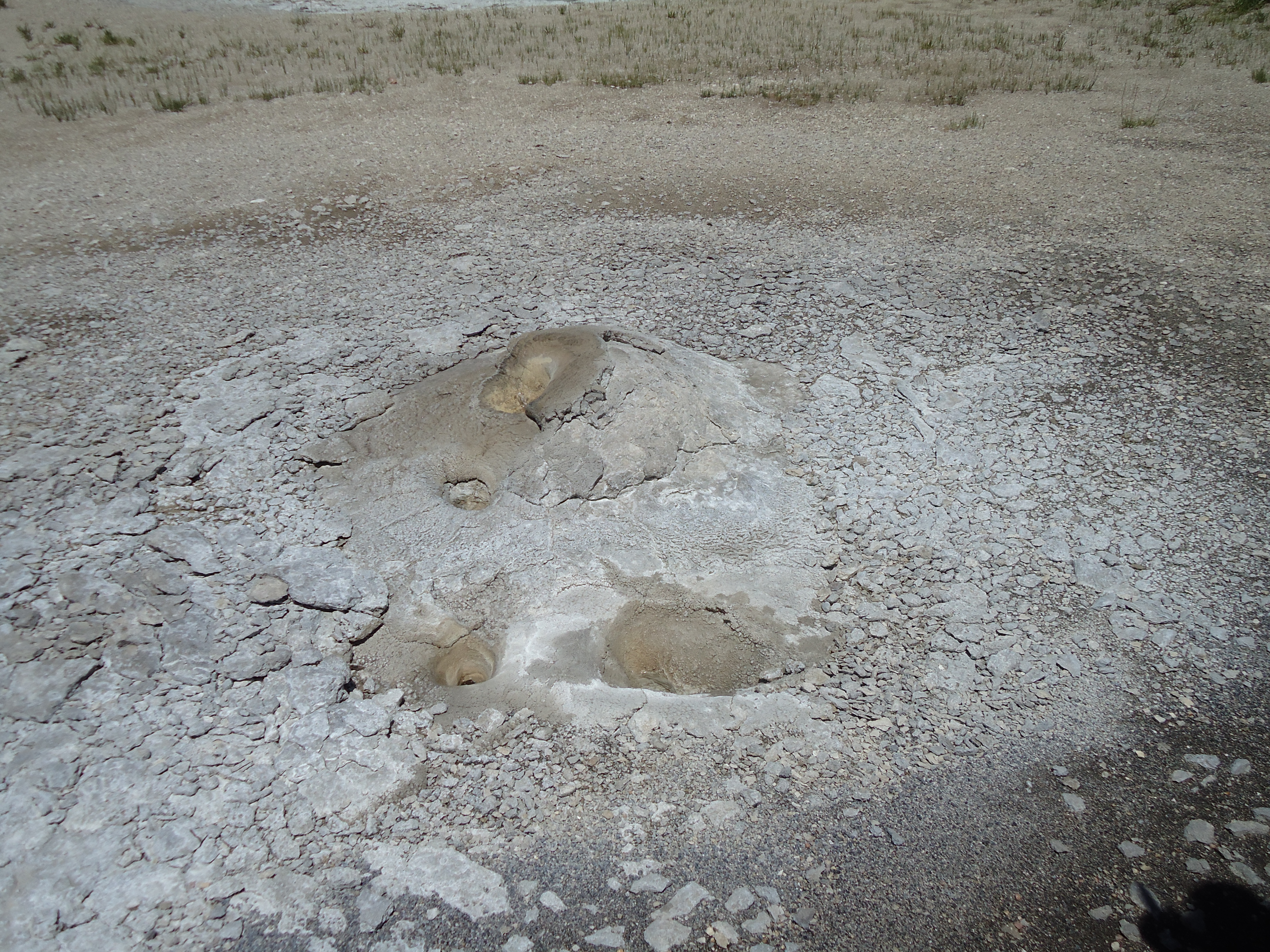 Image of Penta Geyser on July 05, 2010. The water levels in Penta must have dropped due to Sawmill's eruption.